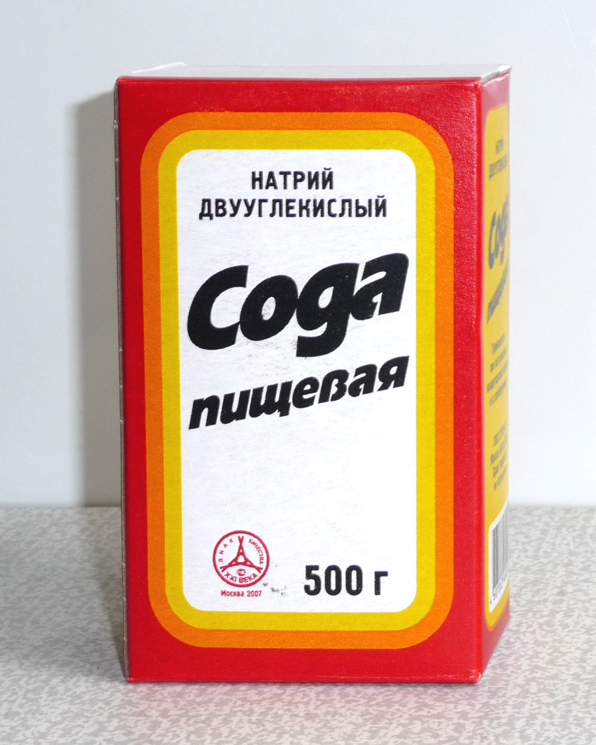 Household soda for cooking